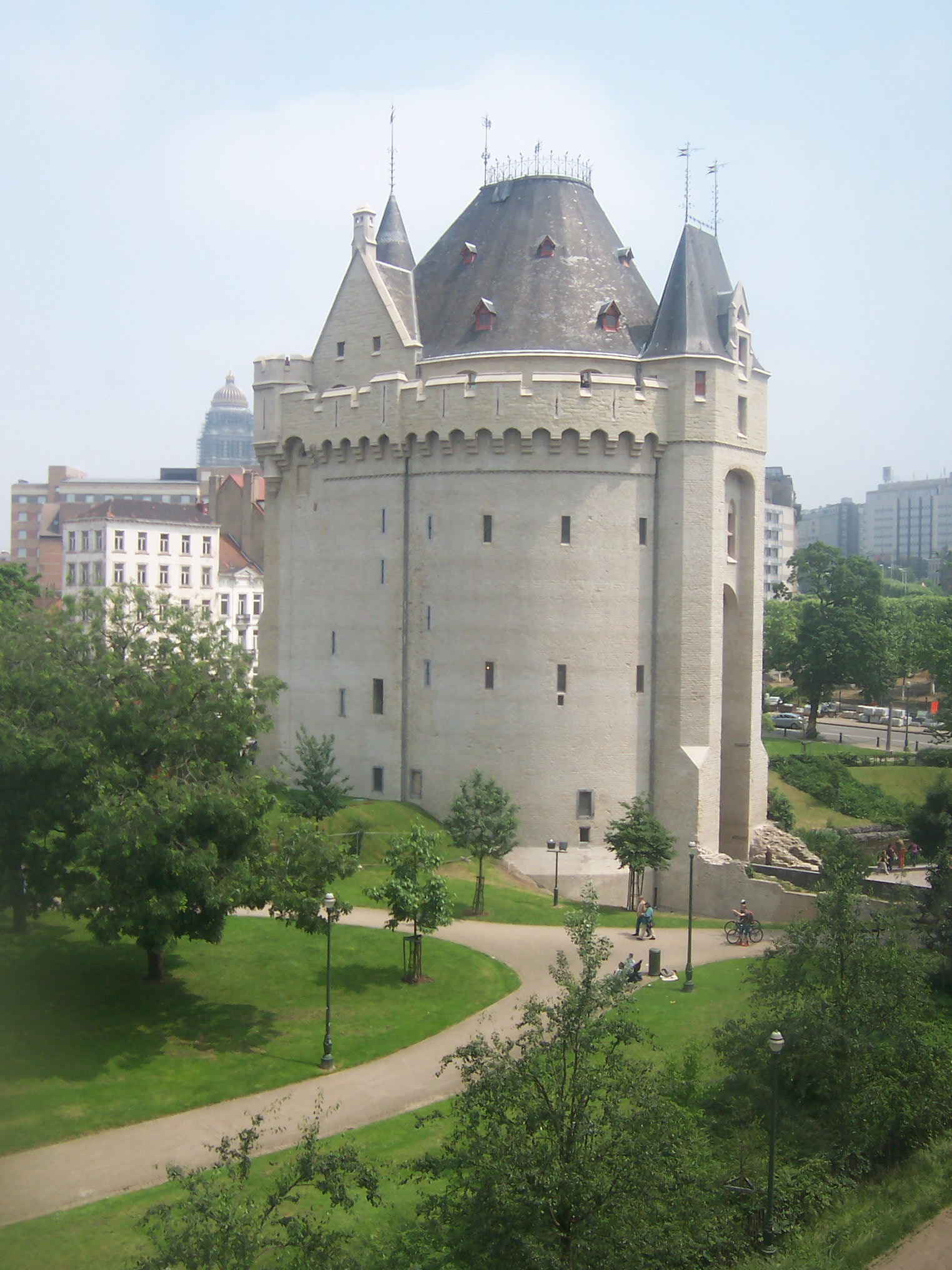 Porte de Hal, Brussels